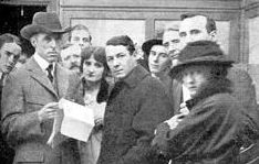 D.W. Griffith (far left with hat, of course) with some of his players. Henry B Walthall center in dark coat.